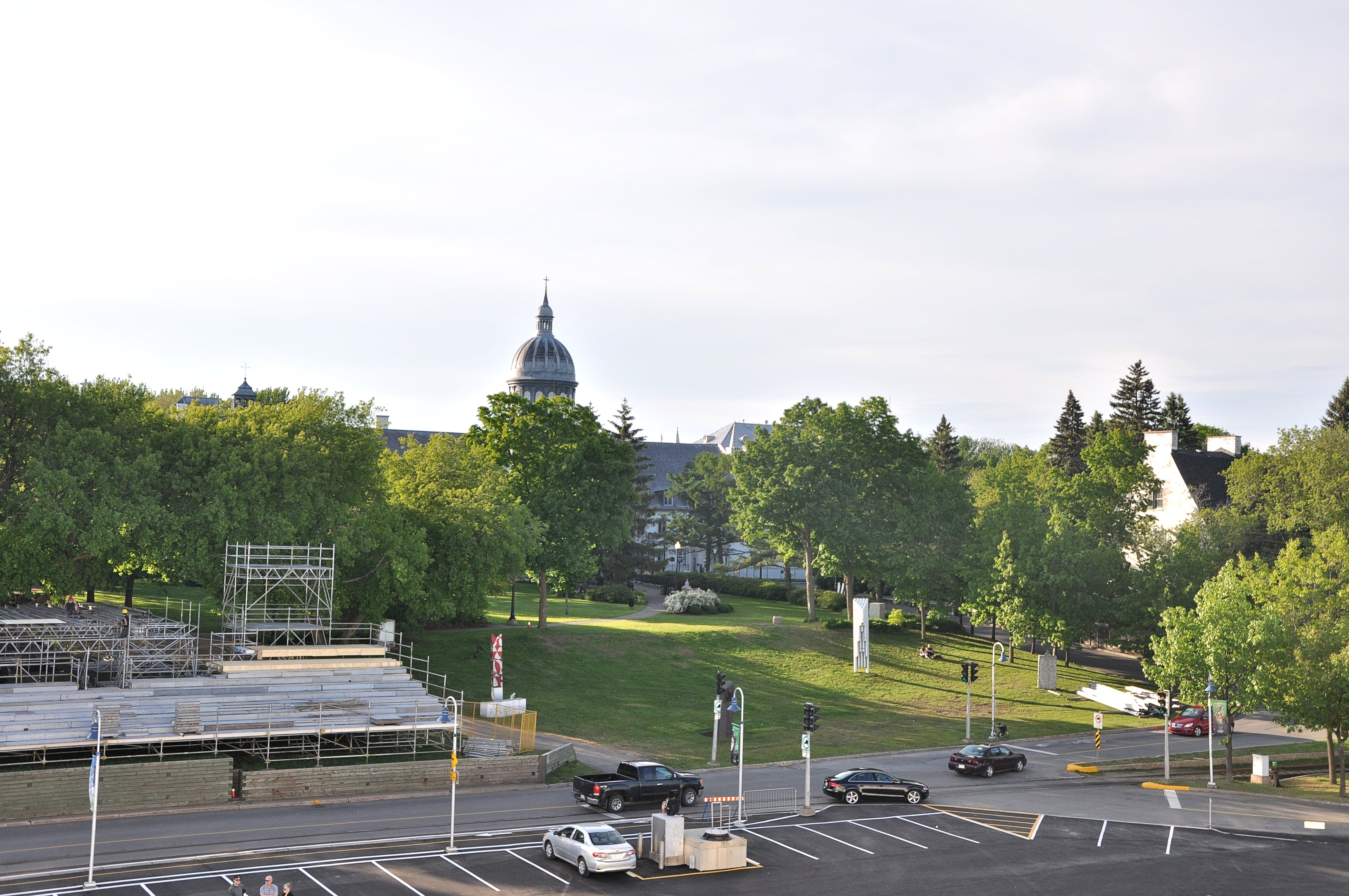 Viewed from our ship, the Black Watch whilst it was berthed at Trois-Rivières.